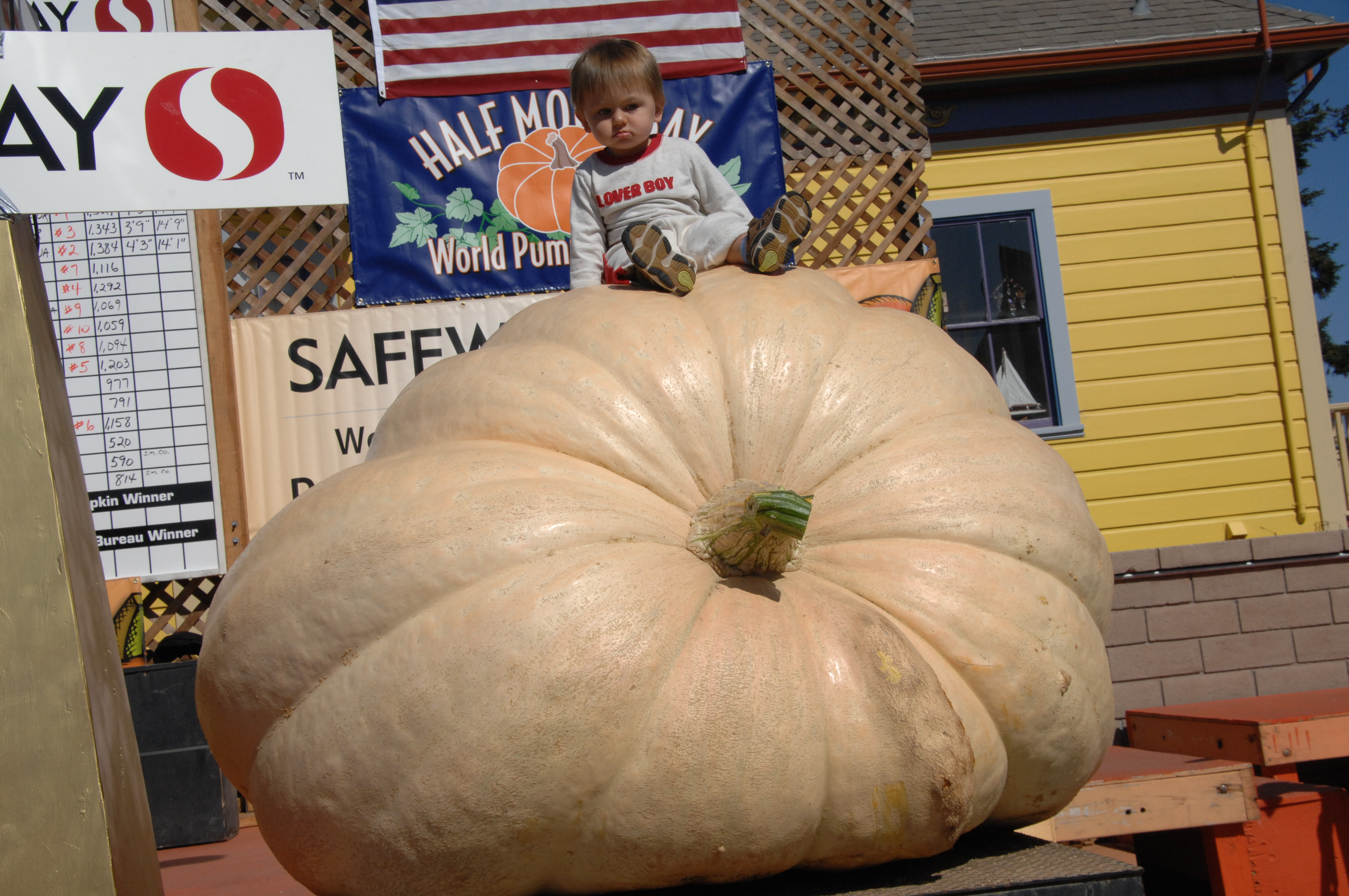 John Phillip Price age 15mo @ Half Moon Bay Pumkin Festival (another shot also seen world wide from a API photographer) California